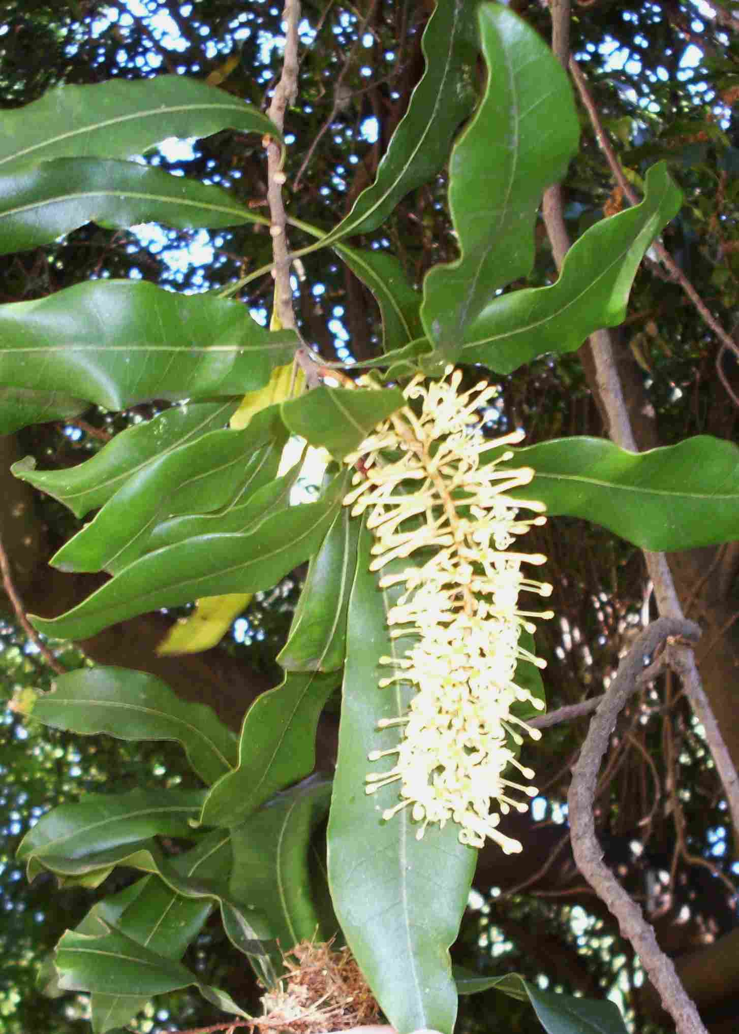 Floydia praealta, flower